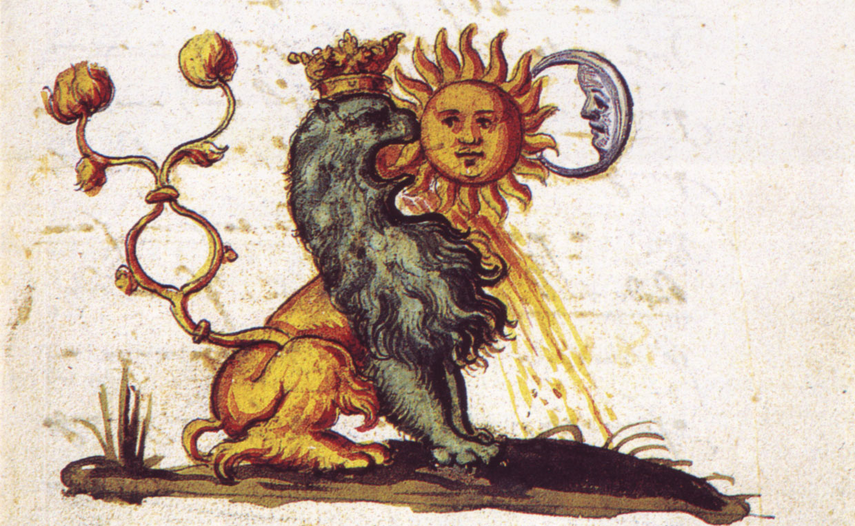 Lion between Sun and Moon, by Jaroš Griemiller, translation into Czech of the Rosarium Philosophorum, Prague, 1578